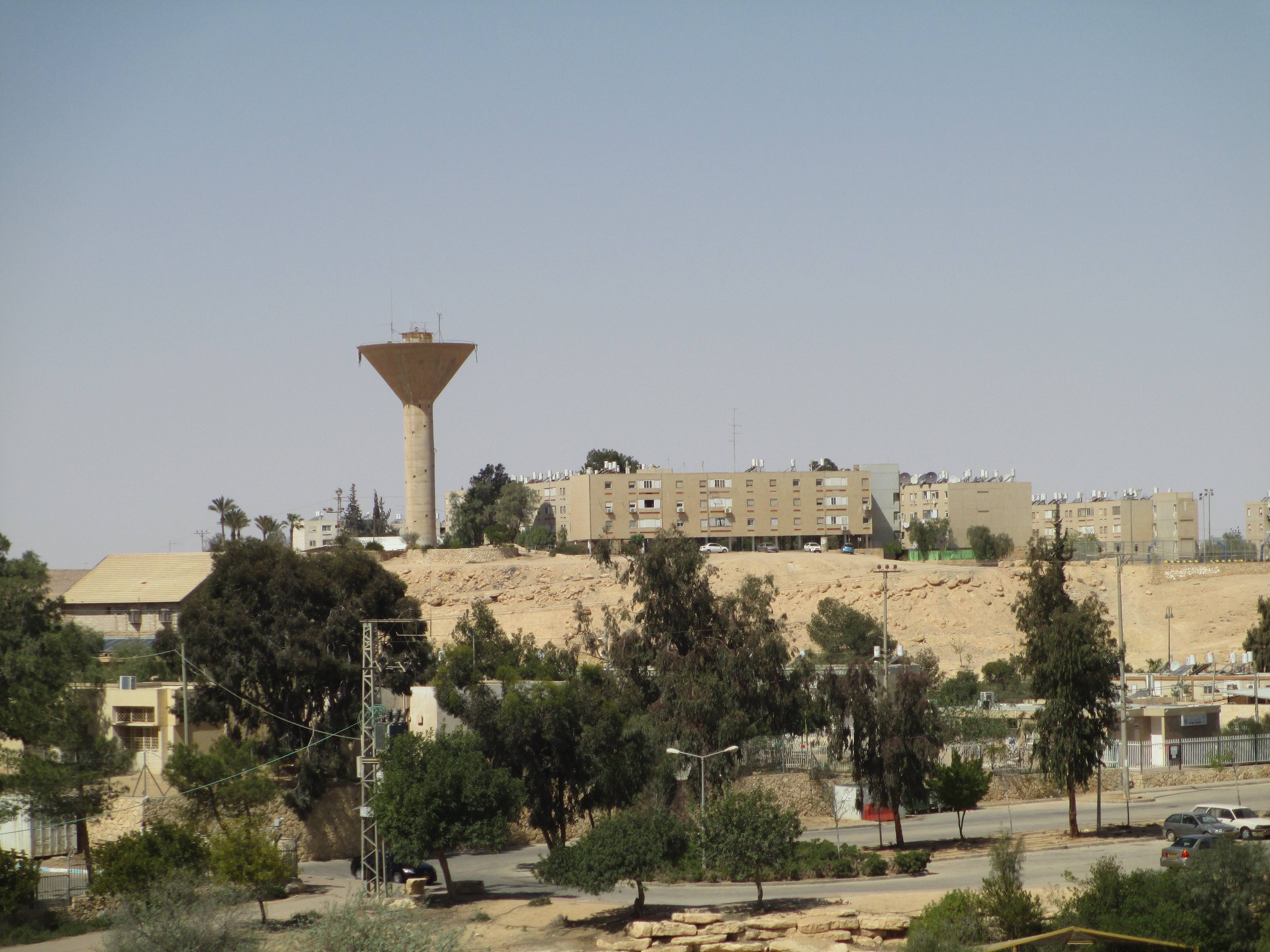 Mitzpe Ramon